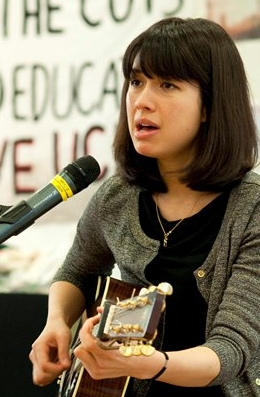 Emmy the Great at the UCL occupation in 2010 (related story).